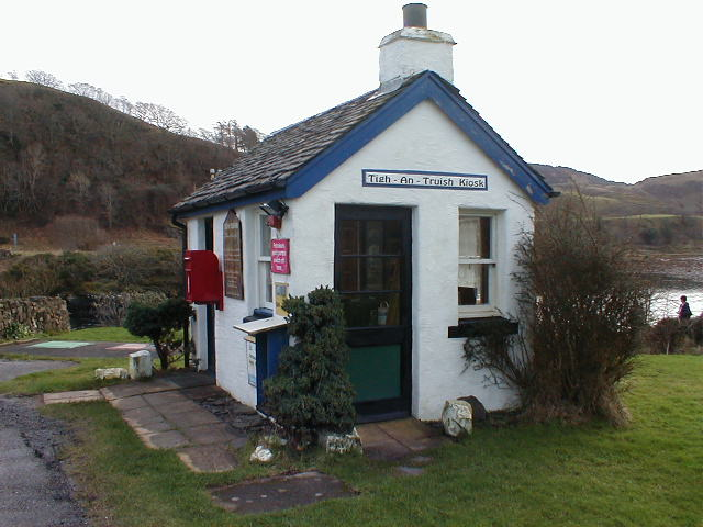 Tigh-an-Truish Kiosk Beside Clachan Bridge.The building was the kiosk for the petrol pumps opposite the hotel.